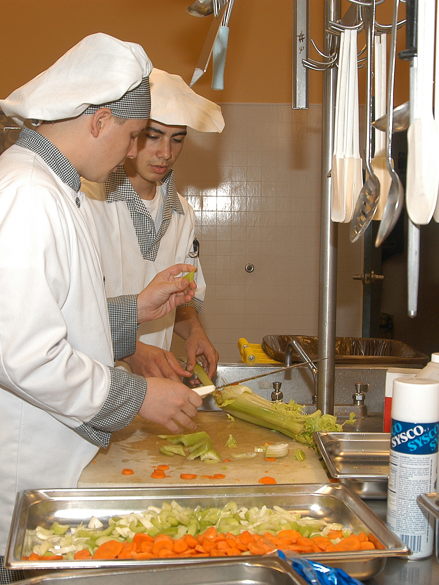 Naval Air Station Whidbey Island, Wash. (Aug. 24, 2004) - Culinary Specialist Seaman Brian Morris from San Bernandino, Calif., trains Culinary Specialist Jorge Garcia from Miami, Fla., on food preparation techniques at the Admiral Nimitz Galley on board Naval Air Station, Whidbey Island. U.S. Navy photo by Photographer’s Mate 3rd Class Elizabeth Acosta (RELEASED)